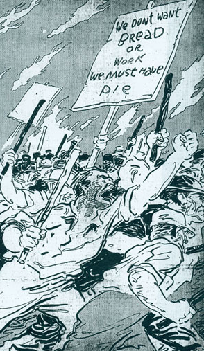 Illustration from the St. Louis Republic newspaper depicting one of the marches during the 1877 St. Louis General Strike.